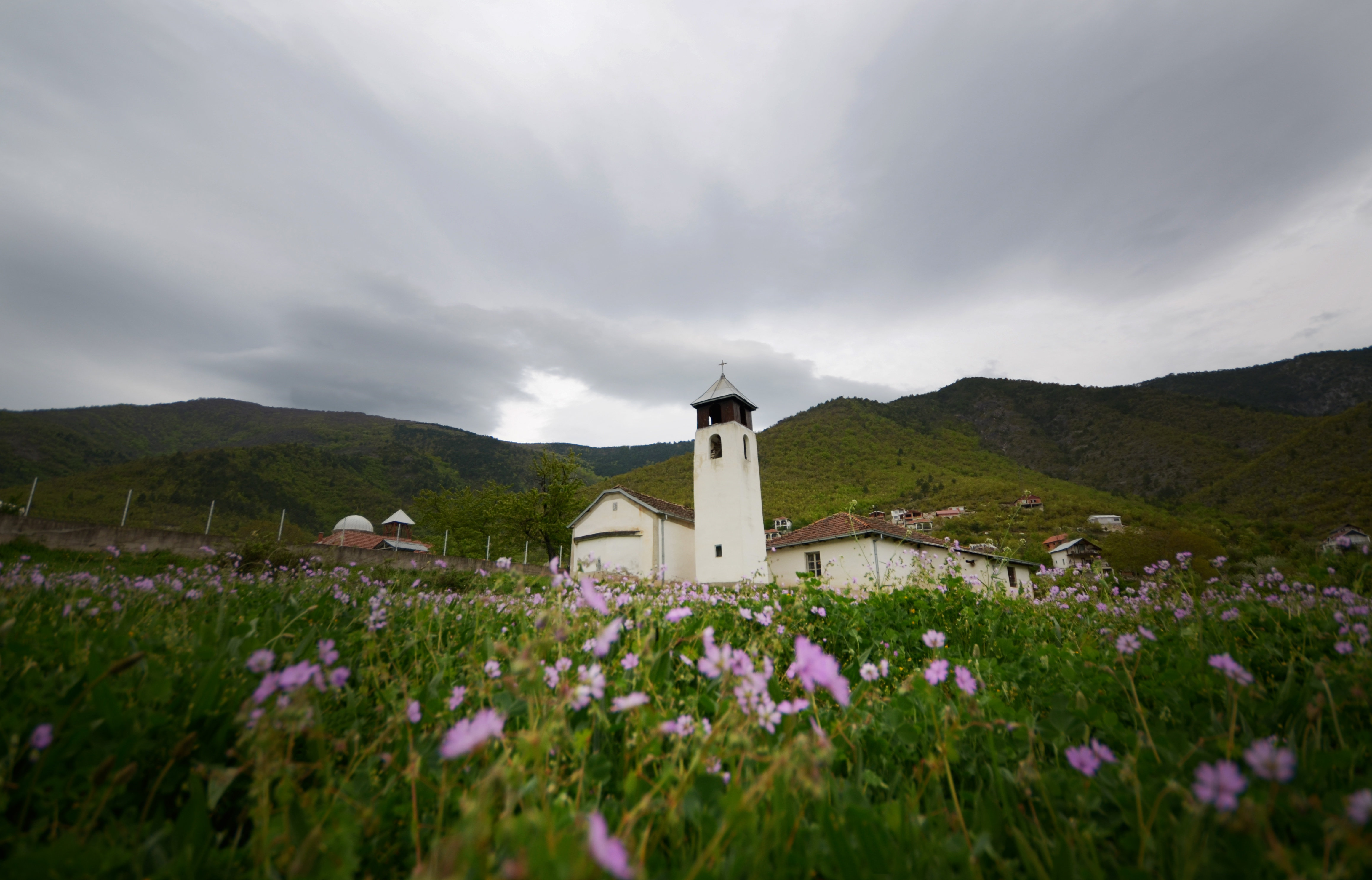 Old church in Blizansko, Jasen